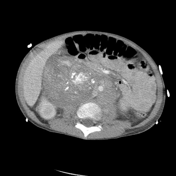 Neuroblastoma, CT of the abdomen